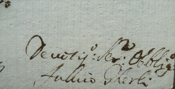 Autografo Fulvio Gherli